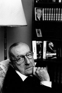 Jacques Mercanton